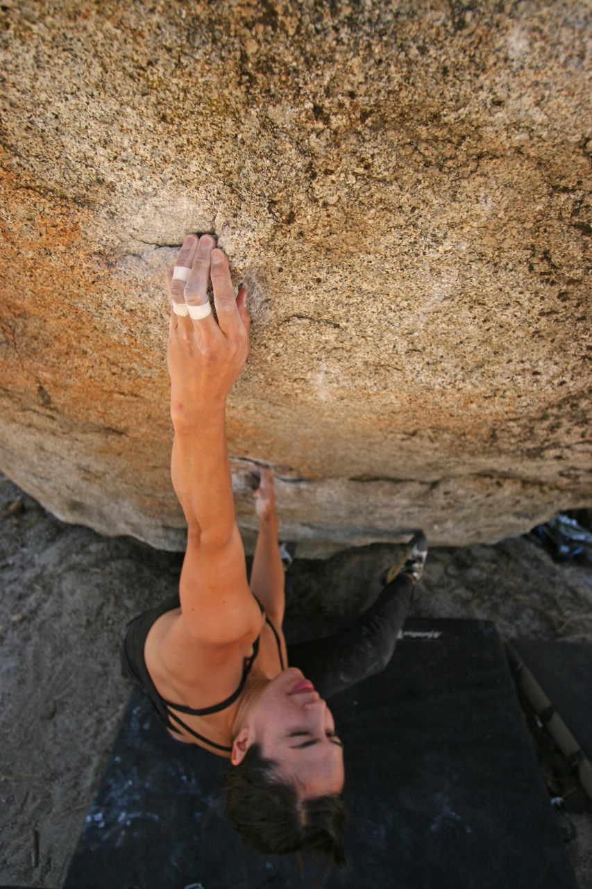 Boulderer C. Kornylak on Dead Bug (V4) problem at Black Mountain — near Idyllwild, in the San Jacinto Mountains, Riverside County, California.